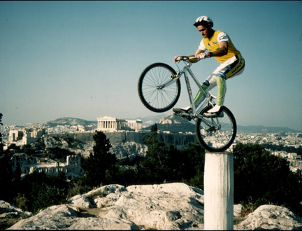 Ot Pi performs a rear wheelie on column in Full Cycle A World Odyssey, a Mountain Bike Travel Documentary, Athens, Greece, 1994 - Photograph by Patty Mooney of San Diego, California